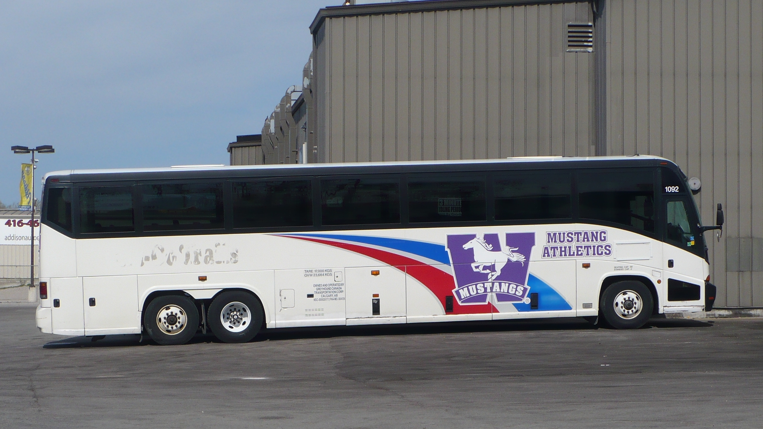 This is the bus used by the 'Western Mustangs' of the University of Western Ontario in London, Ontario. Owned and operated by Greyhound Canada